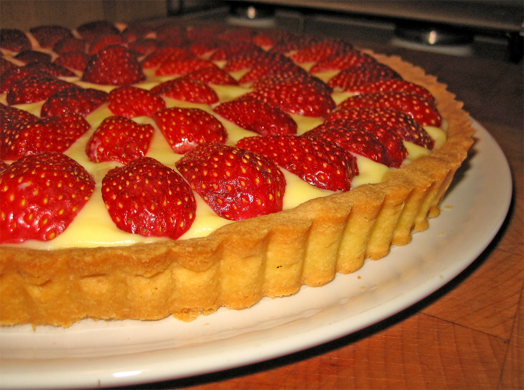 Crostata with custard and strawberries.